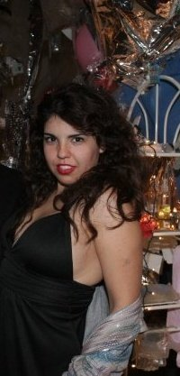 Daniela Luna, who founded the art gallery 'Appetite') in Buenos Aires, at the opening of an exhibition, 2009.